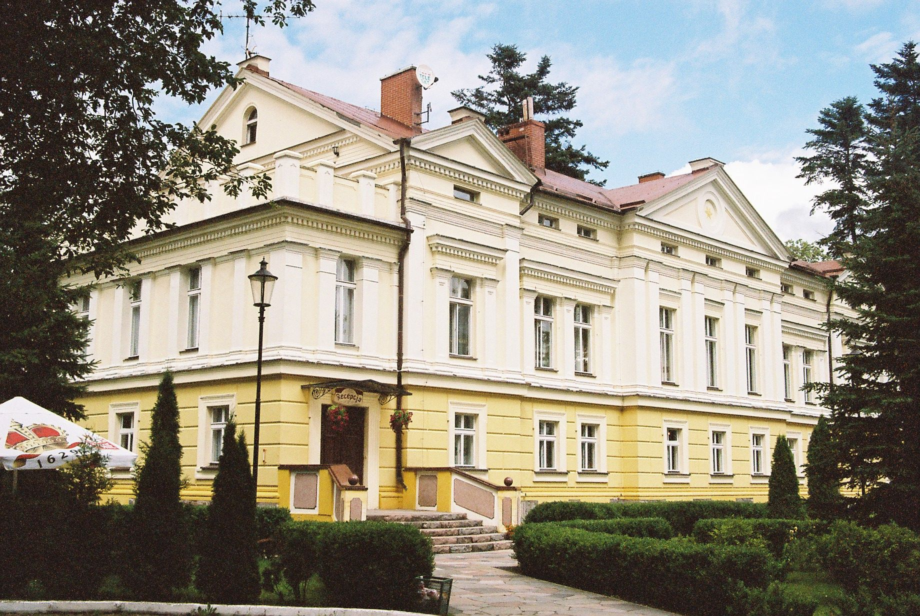 zespół dworsko-parkowy, Sasino, gm. Choczewo